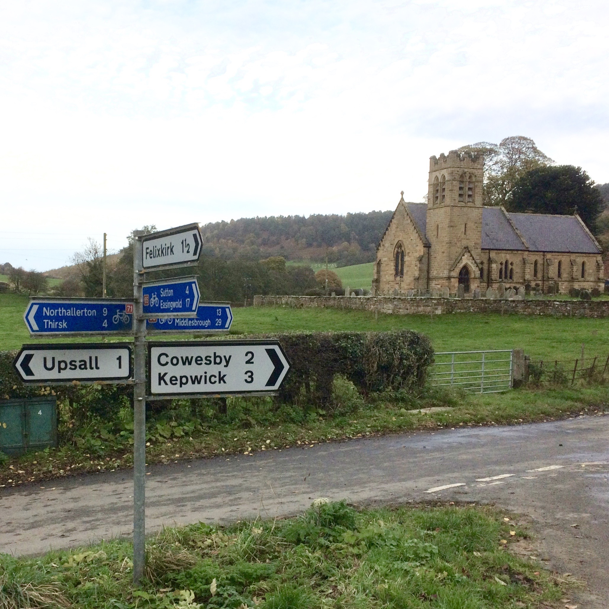 National Cycle Network signpost at the southern end of Route 71 where it meets Route 65 in Kirkby Knowle, North Yorkshire.